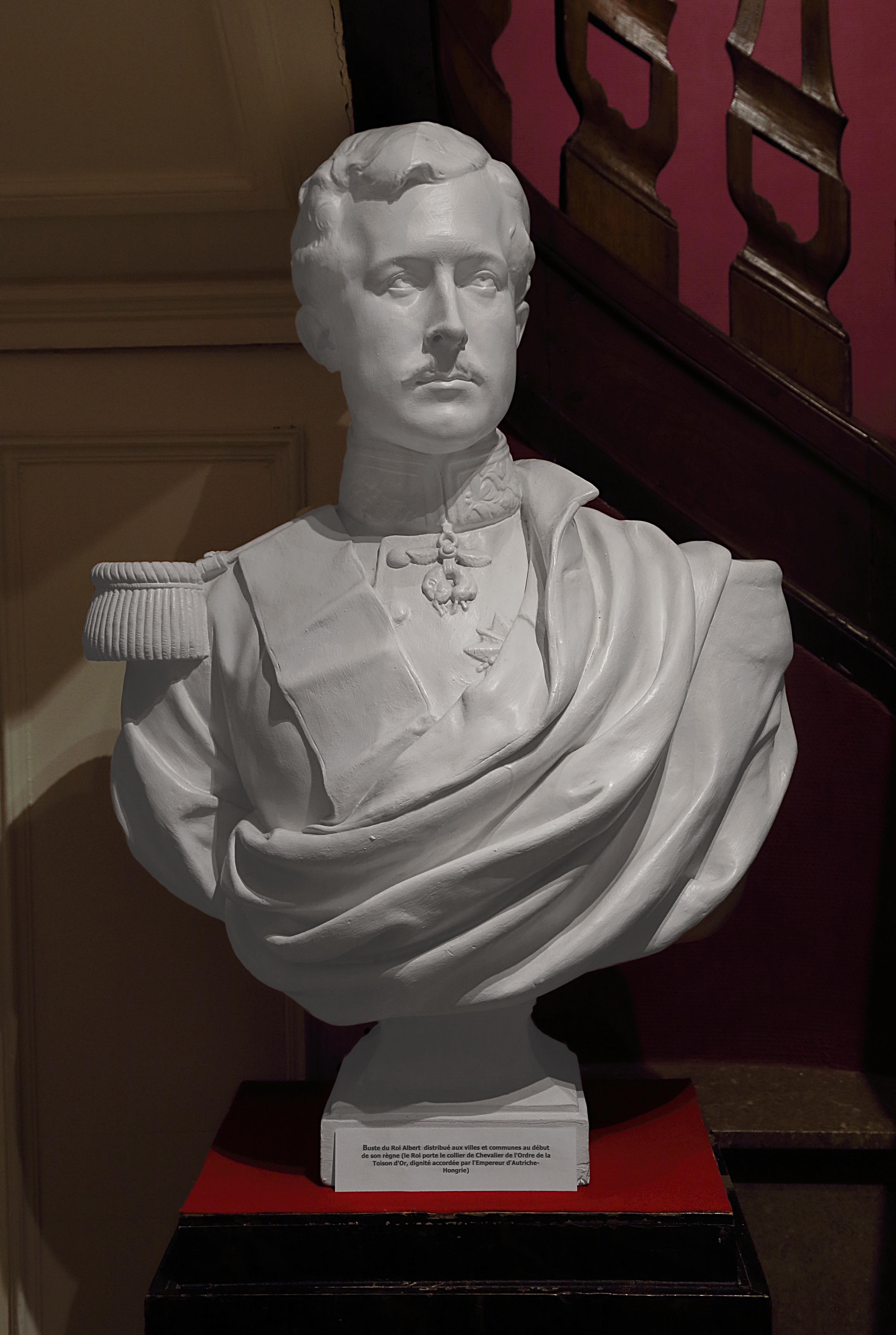 Bust of the king Albert 1st. The king wears the knight collar of the Order of the Golden Fleece, honour awarded by the emperor of Austria-Hungary. Picture taken at the Royal Museum of Weapons and Military History of Tournai, Belgium.